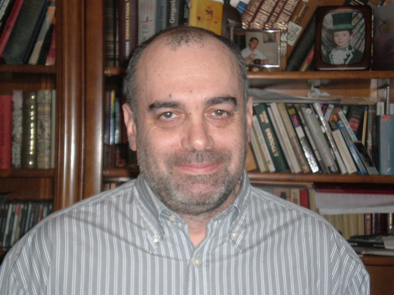 Russian writer Minaev